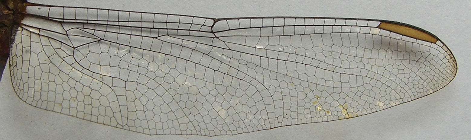 Description: Detail of the hindwing of Orthemis discolor, (male)